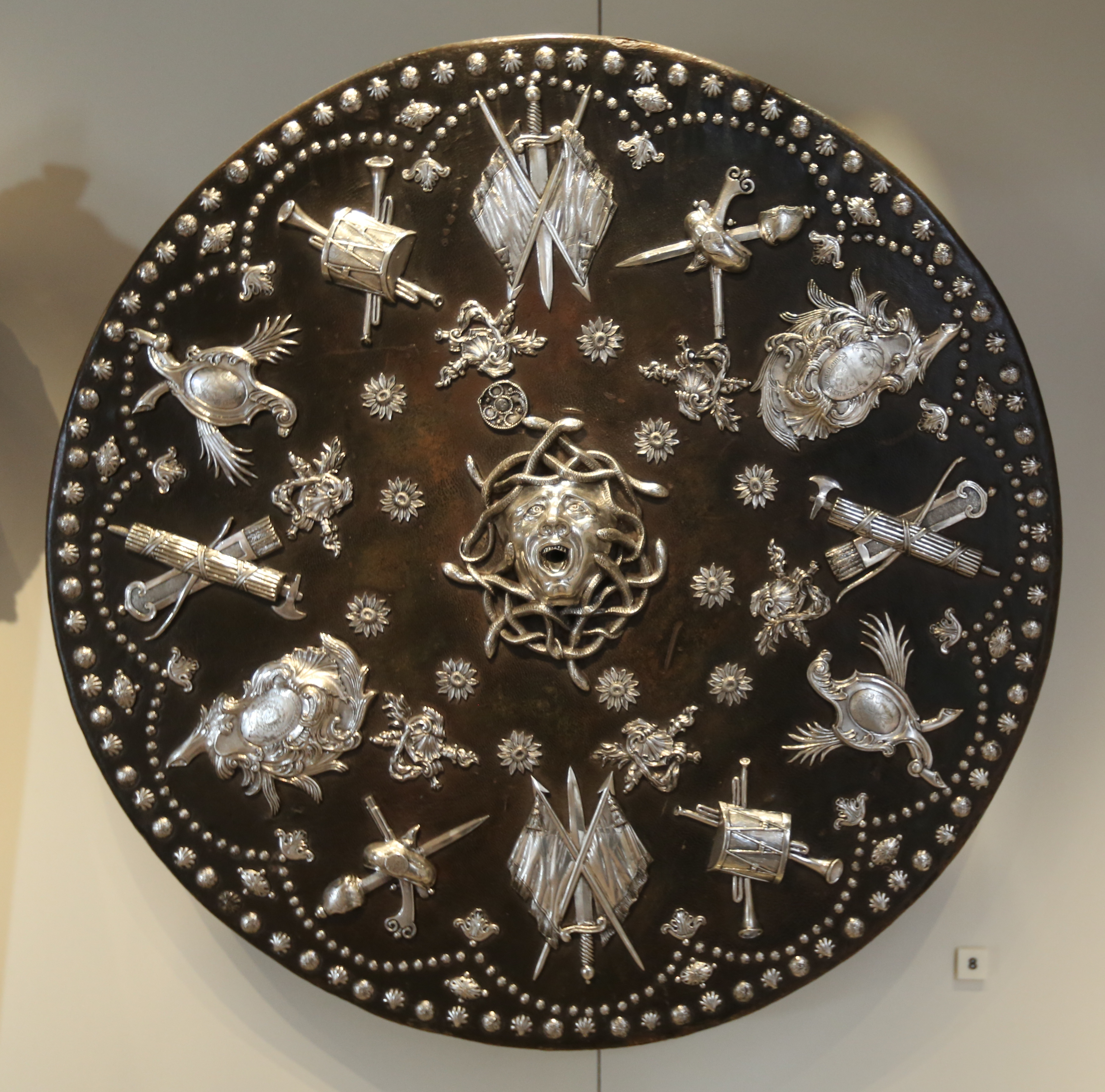 Photo of a targe that belonged to Charles Edward Stuart (AKABonnie Prince Charlie) having been presented to him by the Duke of Perth.